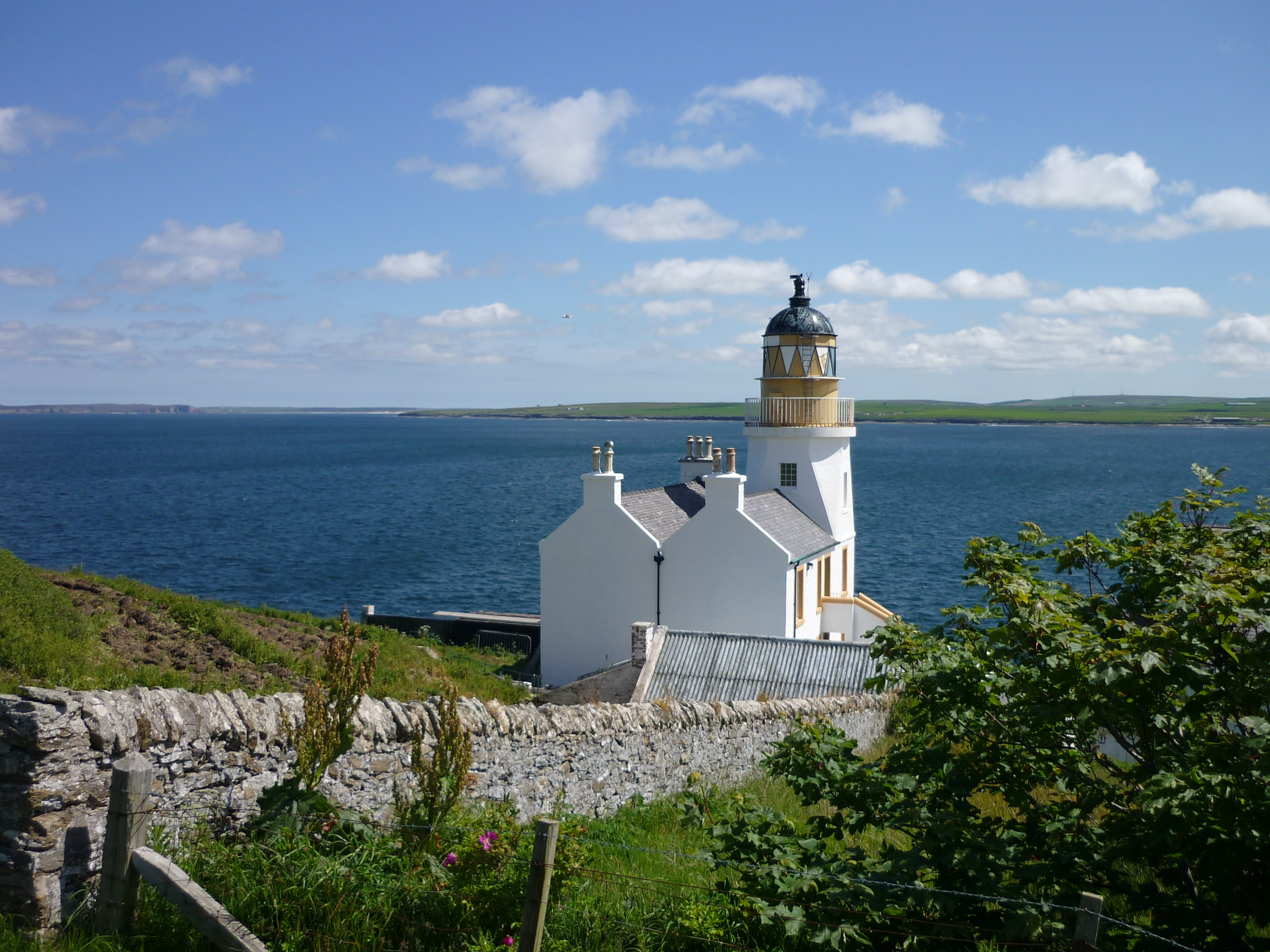 Holburn Head Lighthouse near Scrabster Harbour, Scotland.